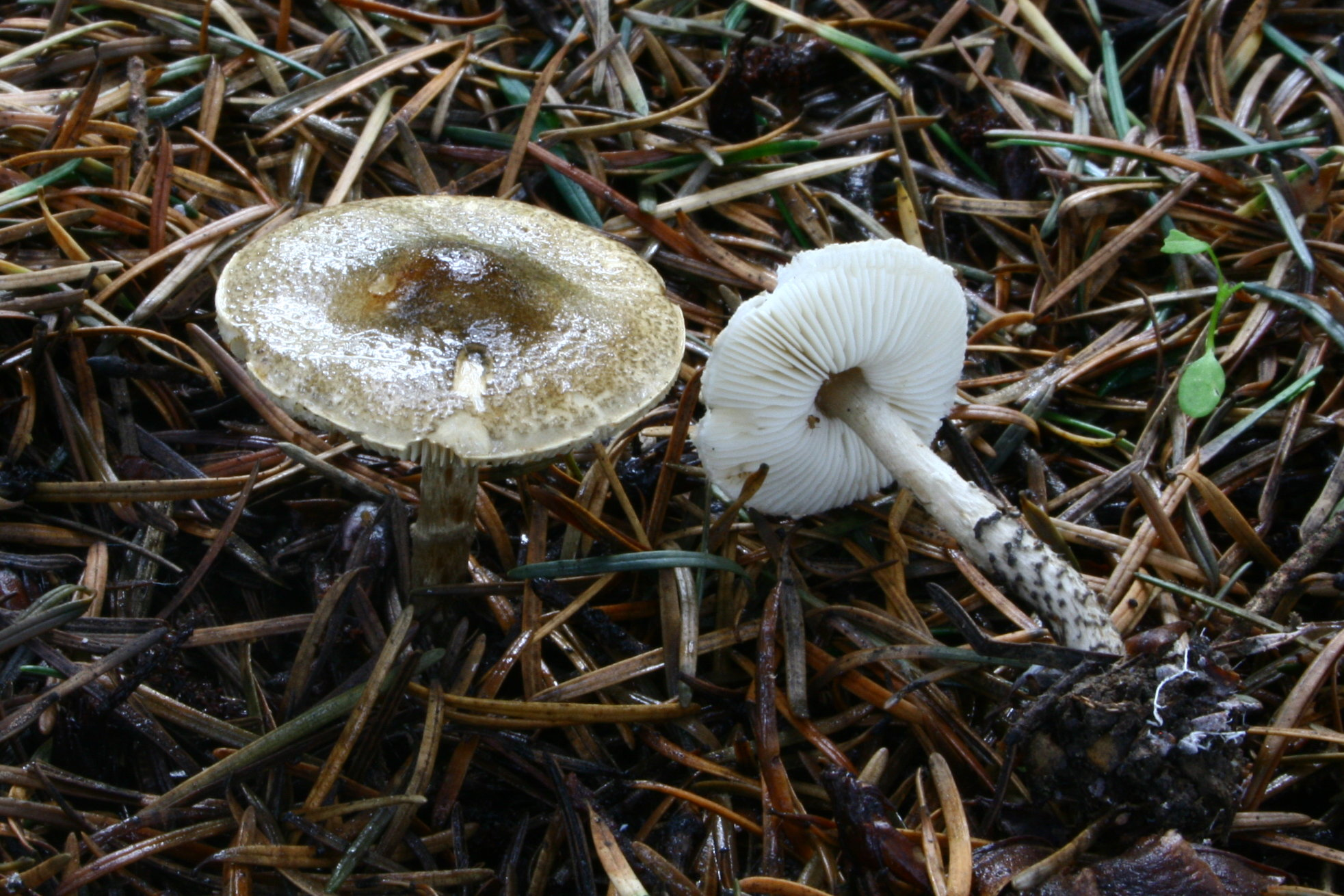 Lepiota felina under firs in a park near Massy, France.